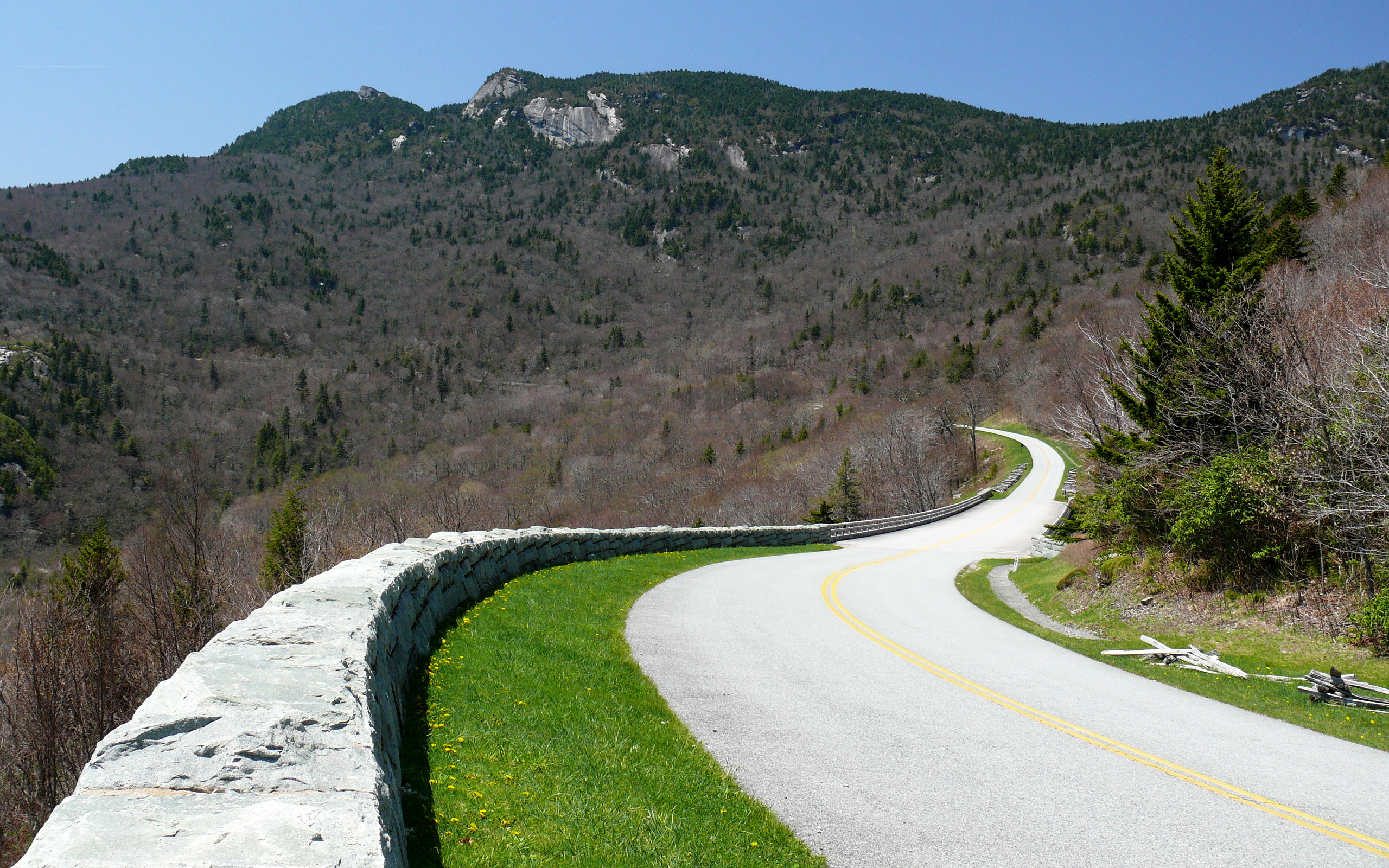 The Blue Ridge Parkway snakes around Grandfather Mountain near the Linn Cove Viaduct at Mile Marker 304. Photo taken with a Panasonic Lumix DMC-FZ50 in Avery County, NC, USA.